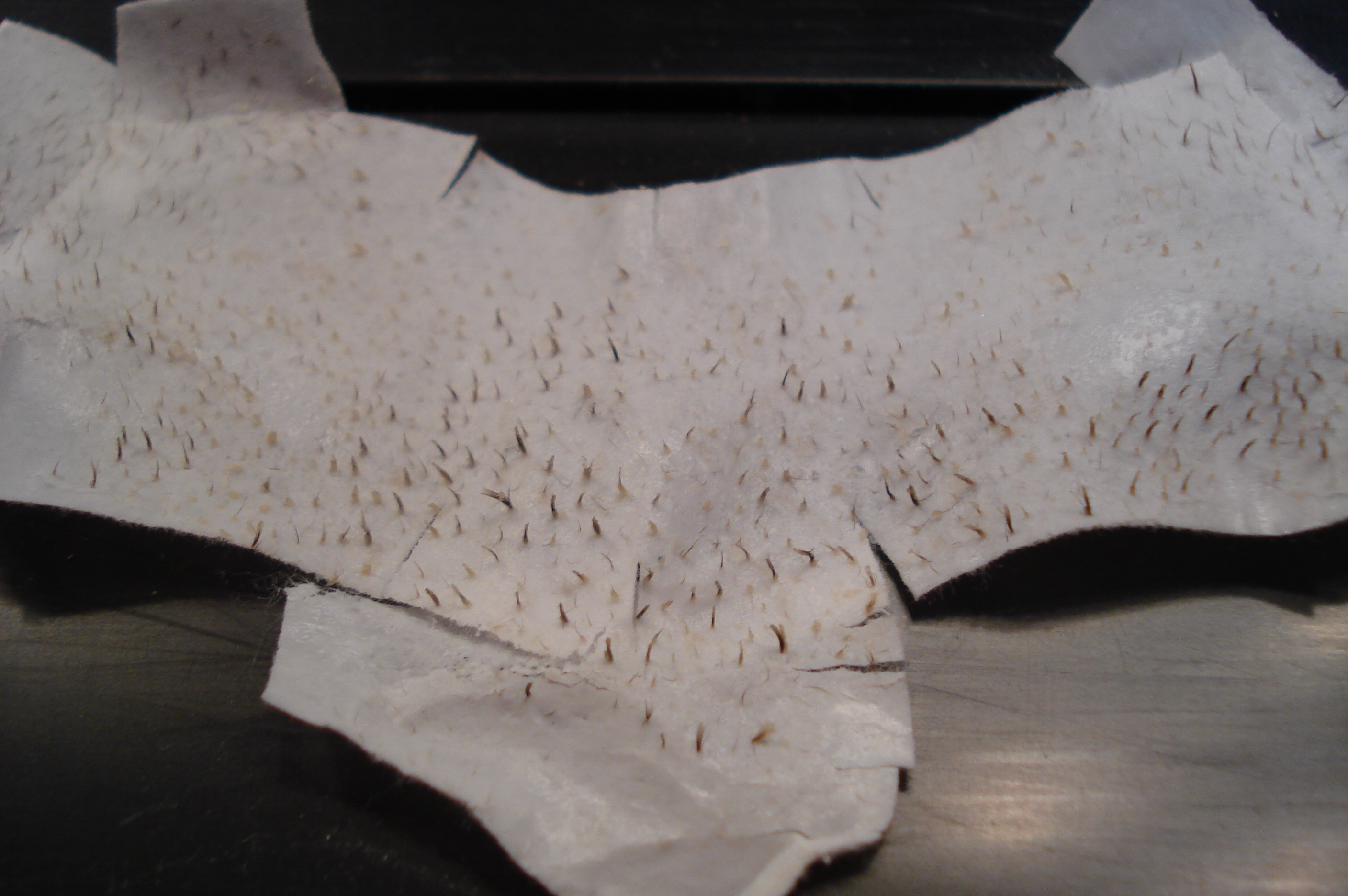 A Used Biore Pore Strip